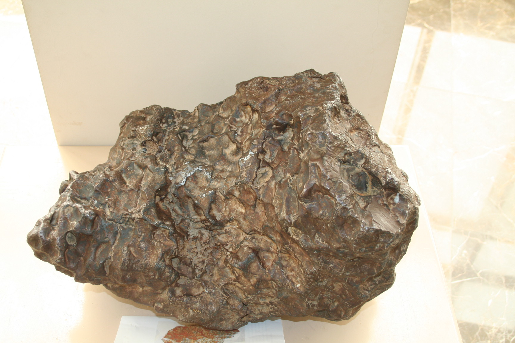 Yardymly (meteorite)